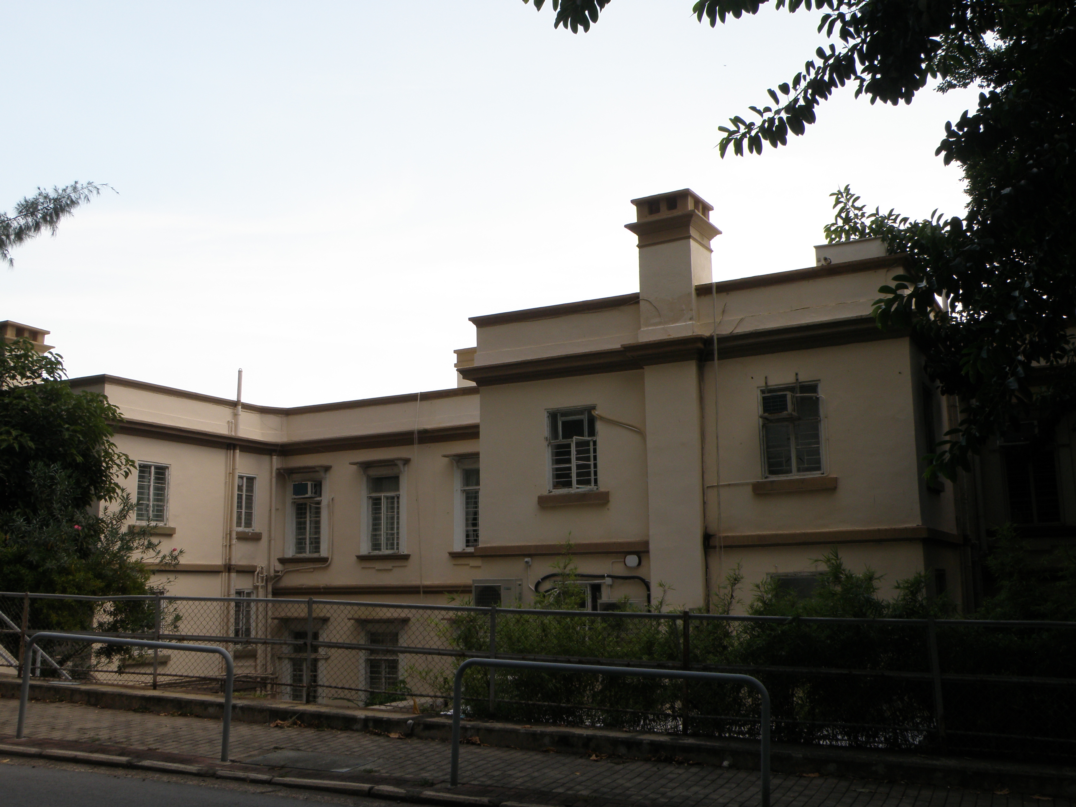 Felix Villa in Mount Davis, Hong Kong.